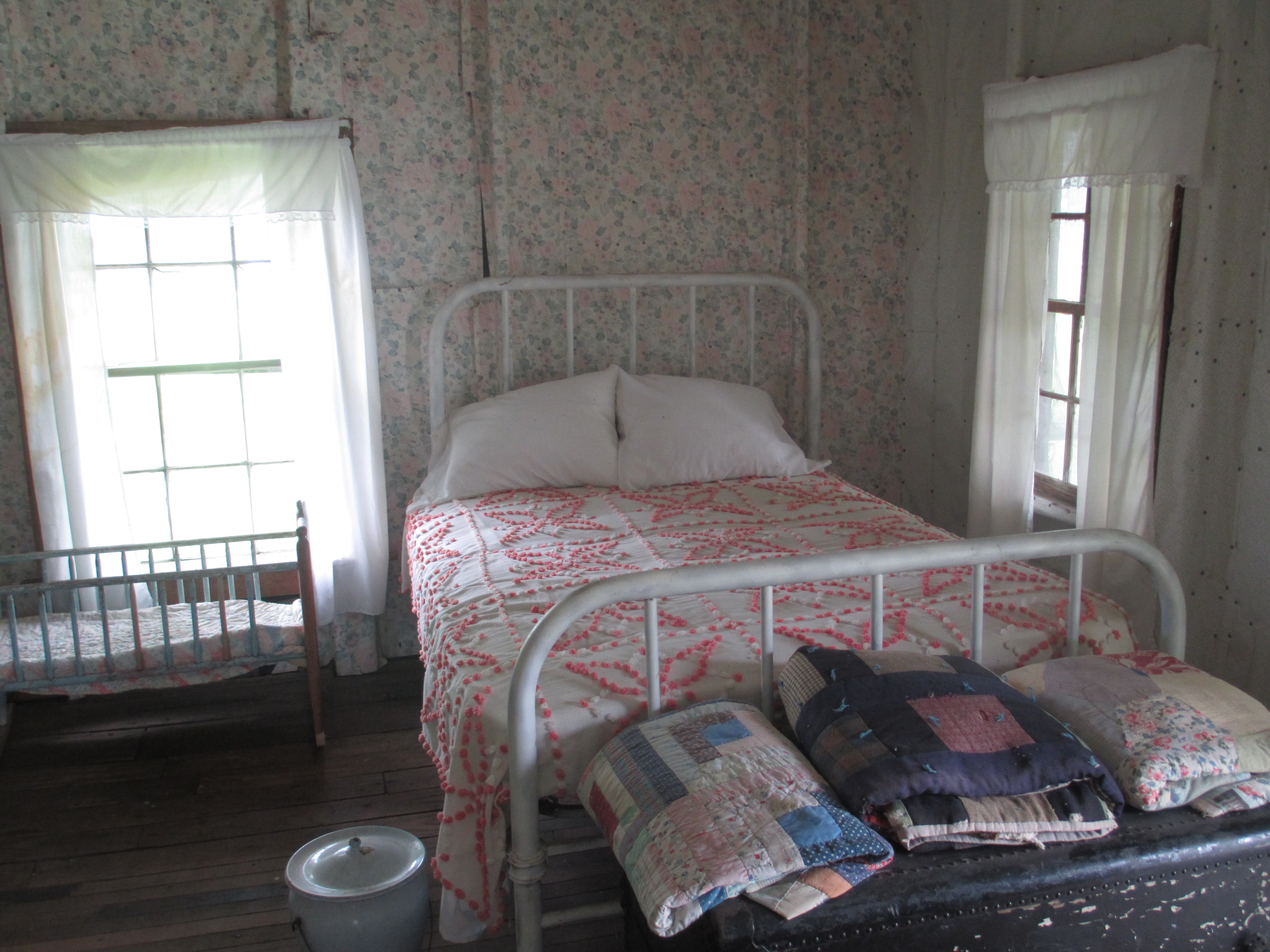 I took photo of inside of sharecropper cabin at Louisiana State Cotton Museum in Lake Providence with Canon camera.